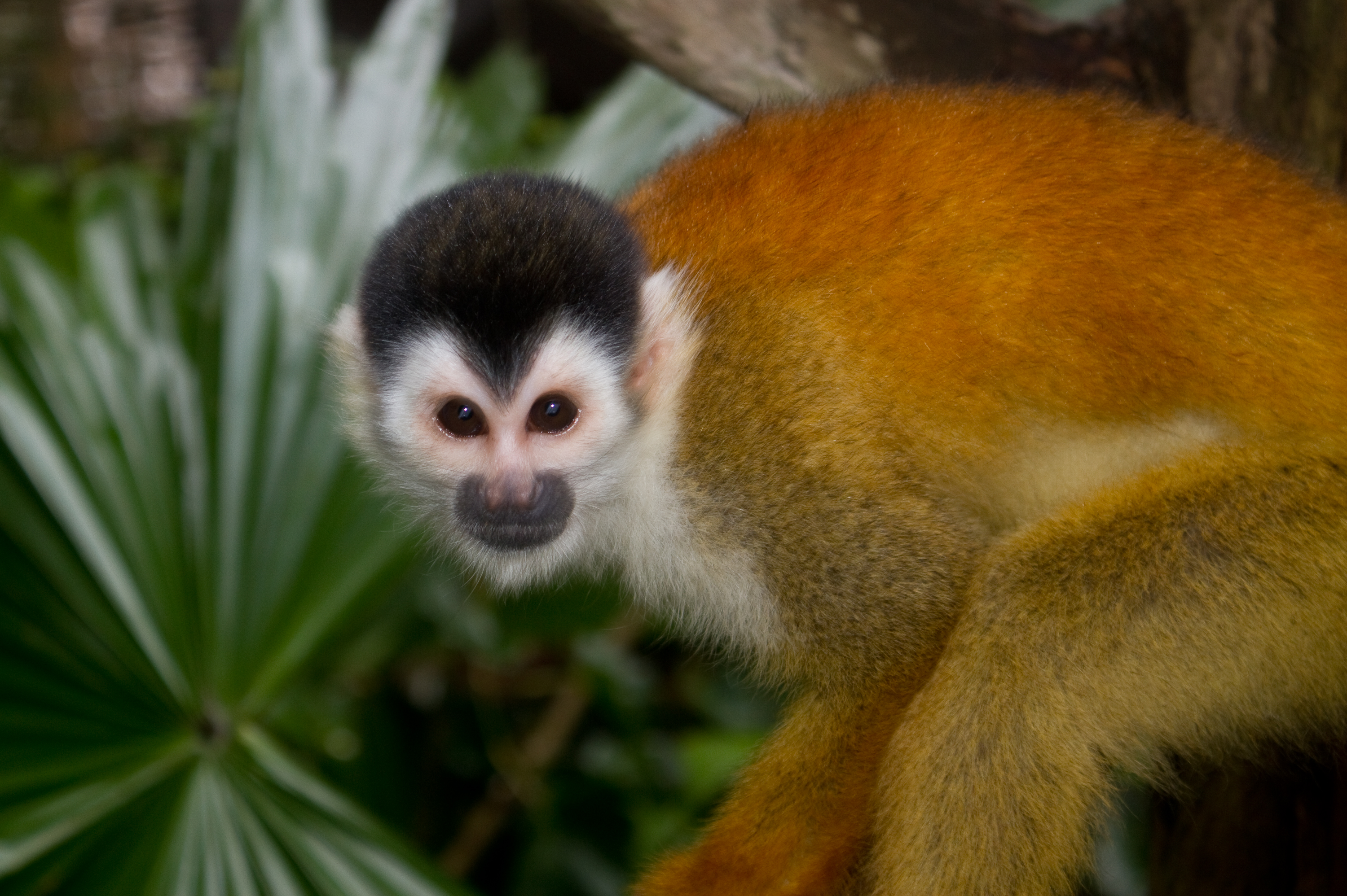 Black-capped Squirrel Monkey Saimiri boliviensis, Summit Zoo, Panama